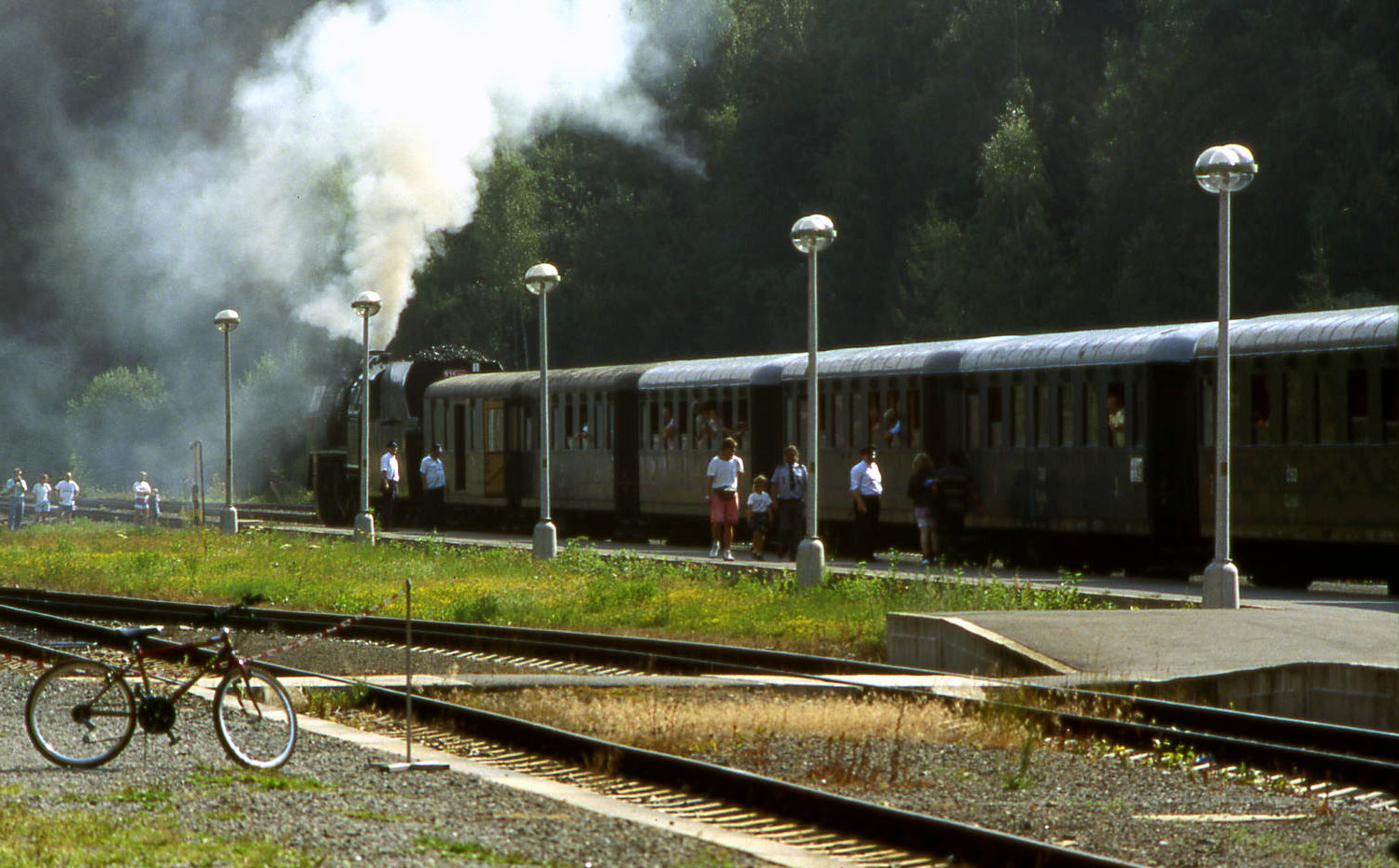 Bayerisch Eisenstein station in 1995 - Train leaving to Železná Ruda